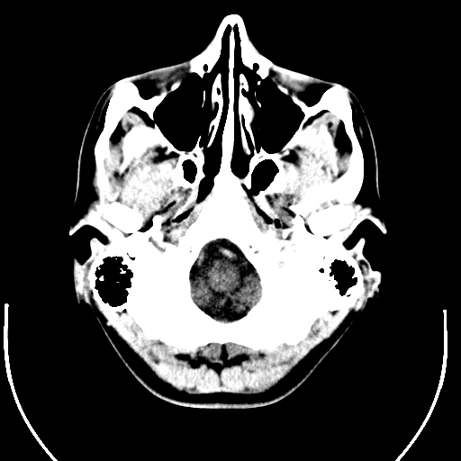 Computer tomography of human brain, from base of the skull to top. Taken with intravenous contrast medium. It was taken Mars 23, 2007 on the uploader, after a 20 minute episode of homonymous hemianopsia with loss of the left visual field, but nothing strange was found. Three episodes of scotoma occurred in the following years, whereof the last one was scintillating (depiction). Otherwise, there were no further neurological symptoms.